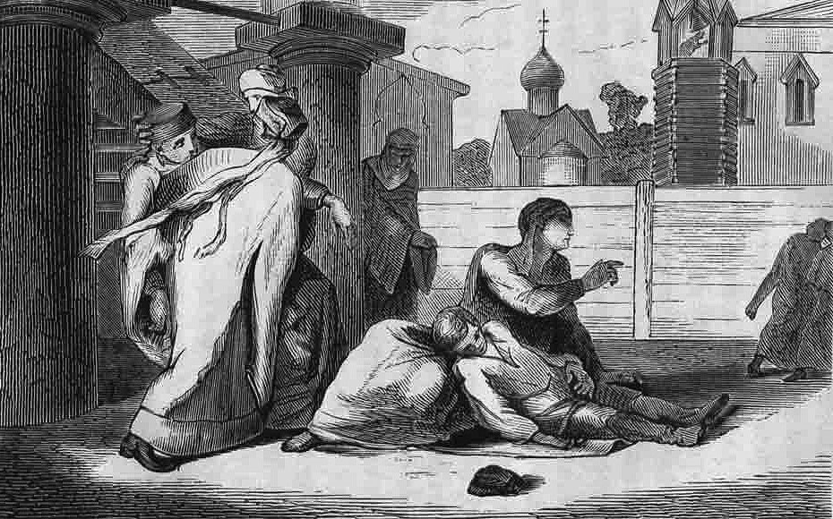 Murder of Tsarevich Dmitry of Uglich